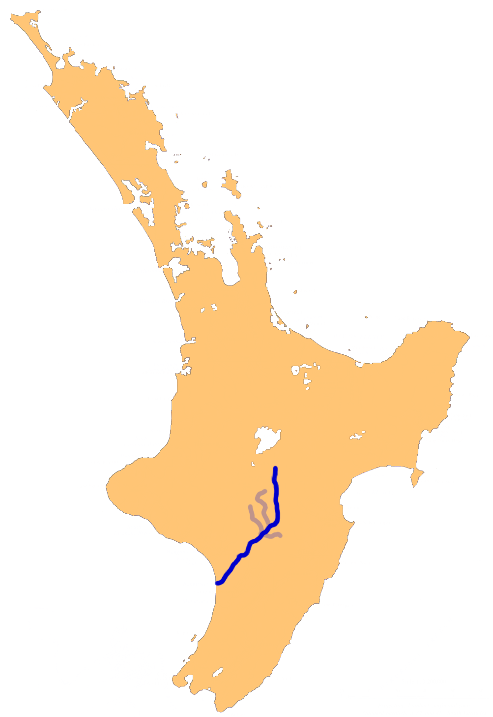 Location map of the Rangitikei River, New Zealand